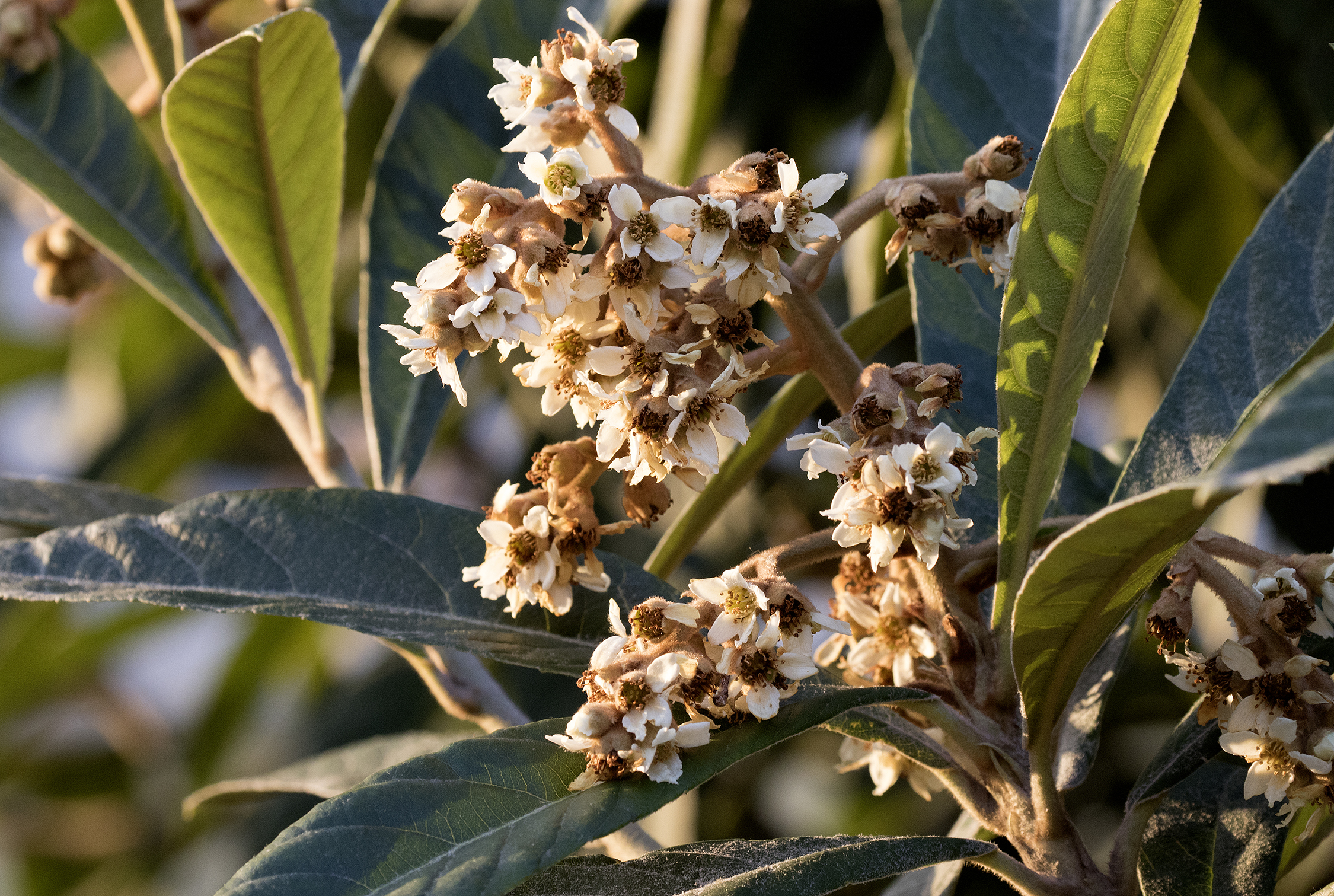 Flowers of loquat (Eriobotrya japonica). Seyhan - Adana, Turkey.